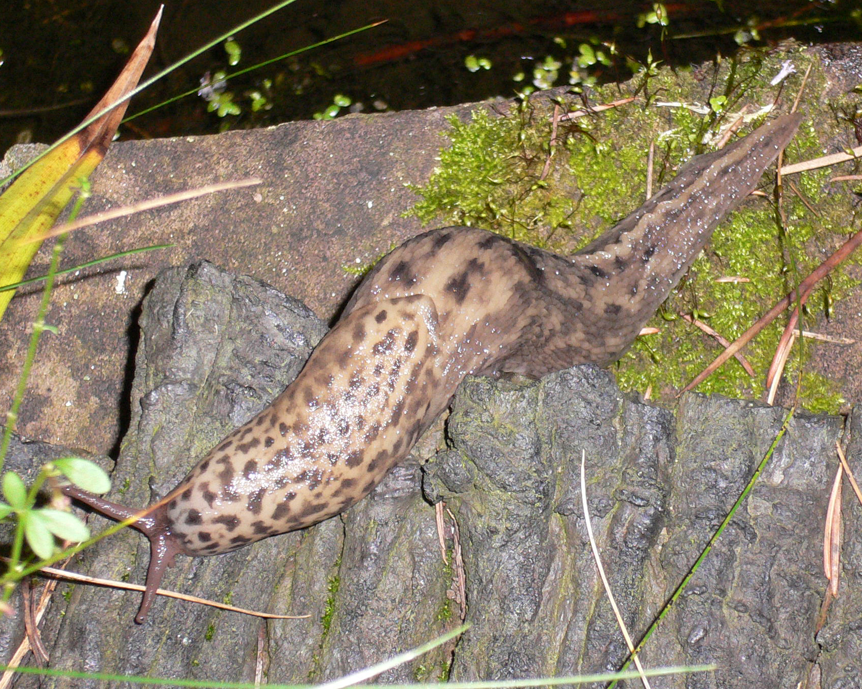 Limax maximus